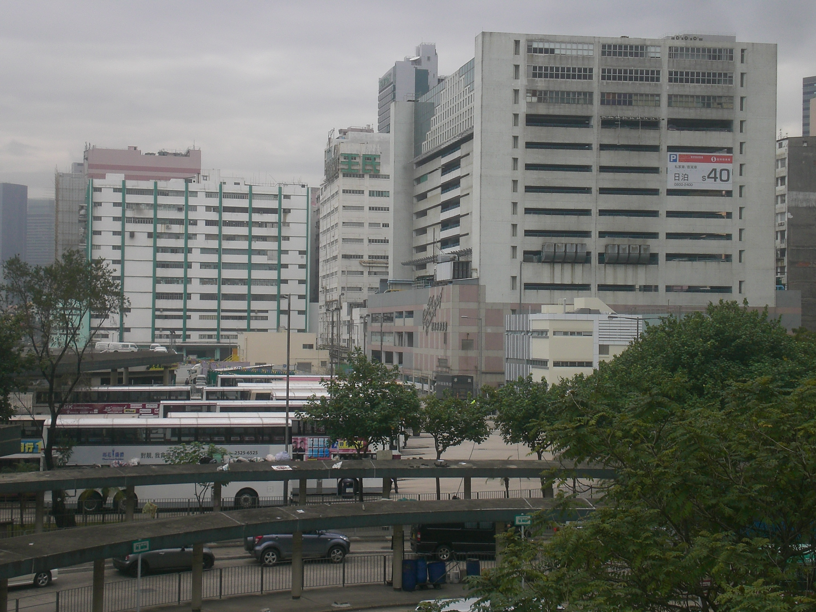 zh:2010年zh:觀塘區